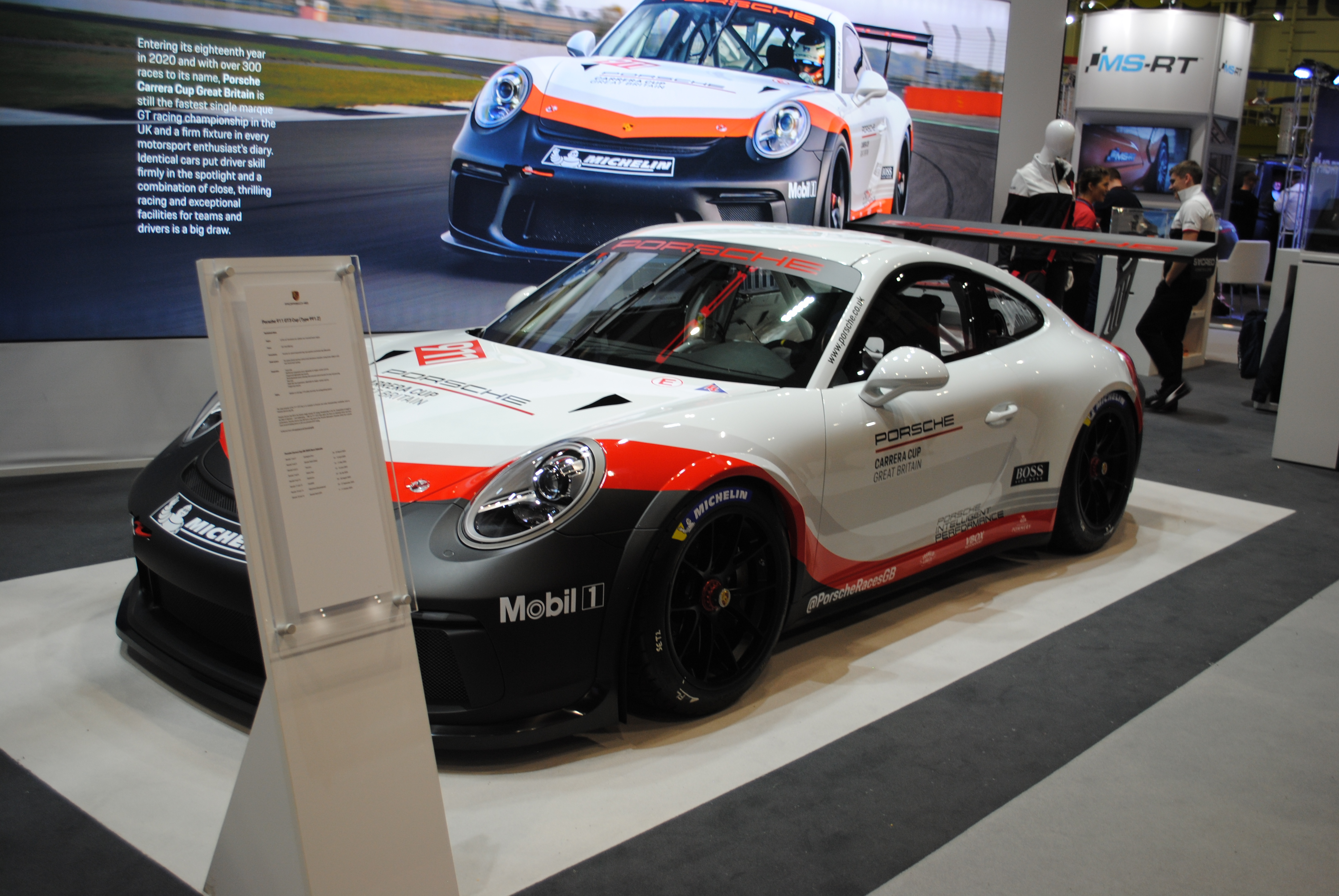 A Porsche 991 GT3 Cup, the same model as used in the Porsche Carrera Cup series around the world, this one sporting a livery advertising the Porsche Carrera Cup Great Britain.